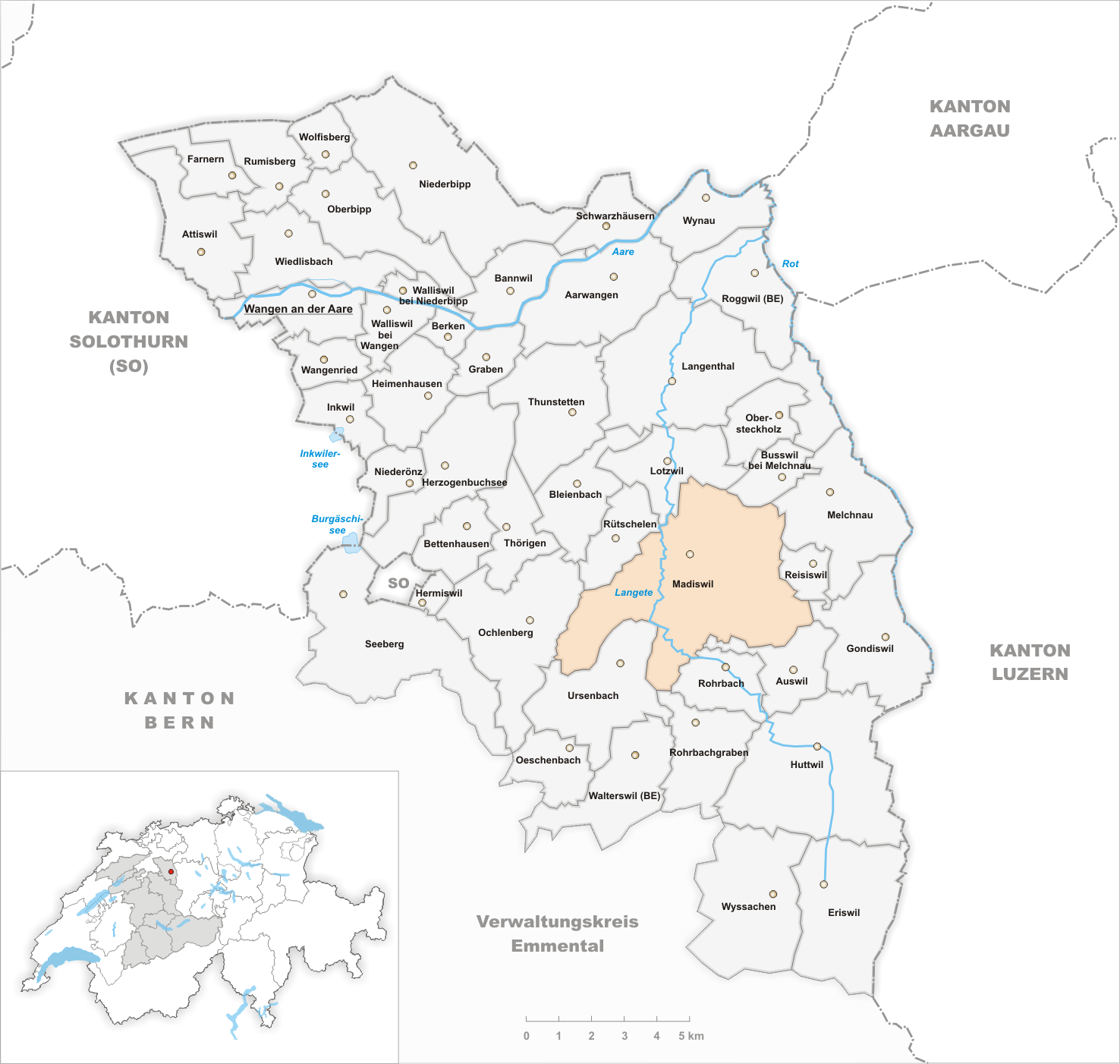 Municipality Madiswil